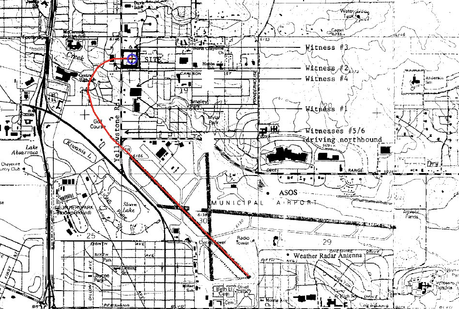 Diagram showing crash site of Jessica Dubroff's plane